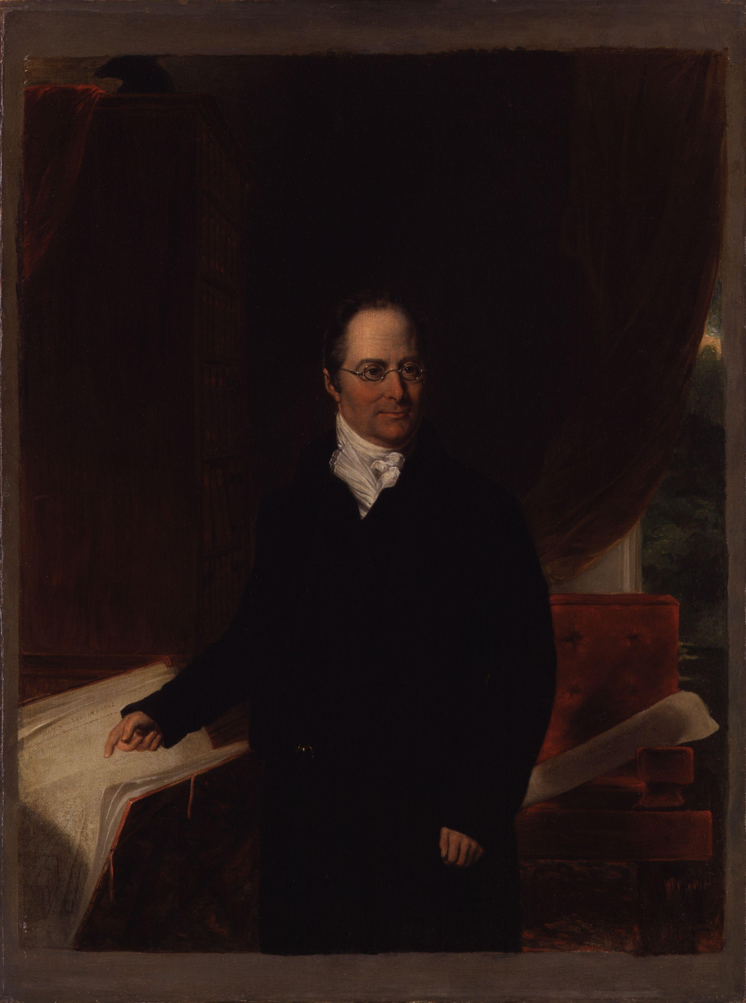 Daniel Asher Alexander, by John Partridge (died 1872). All images in this batch have been confirmed as author died before 1939 according to the official death date listed by the NPG.